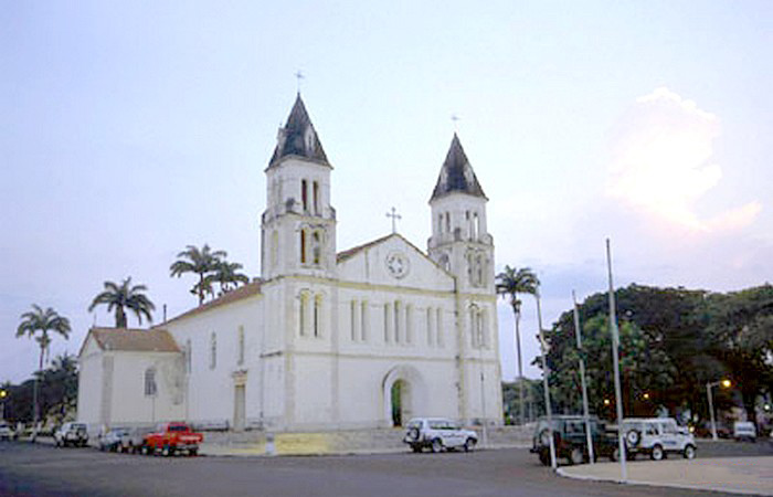 The cathedral - Sé - of Sao Tomé. Photograph Henryk Kotowski.